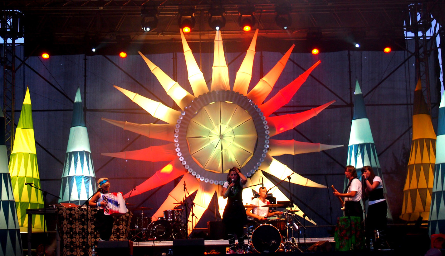 Folknery 1